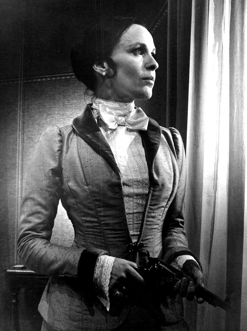 Publicity photo of Claire Bloom in U.S. stage play, Hedda Gabler.